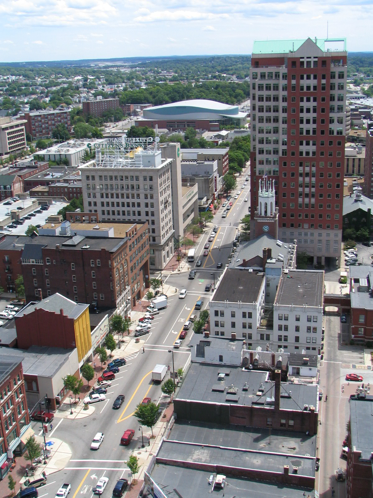 View of Elm St. in Manchester, New Hampshire looking south showing city hall, the City Hall Plaza building, the Citizen's Bank building and the Verizon Wireless Arena.